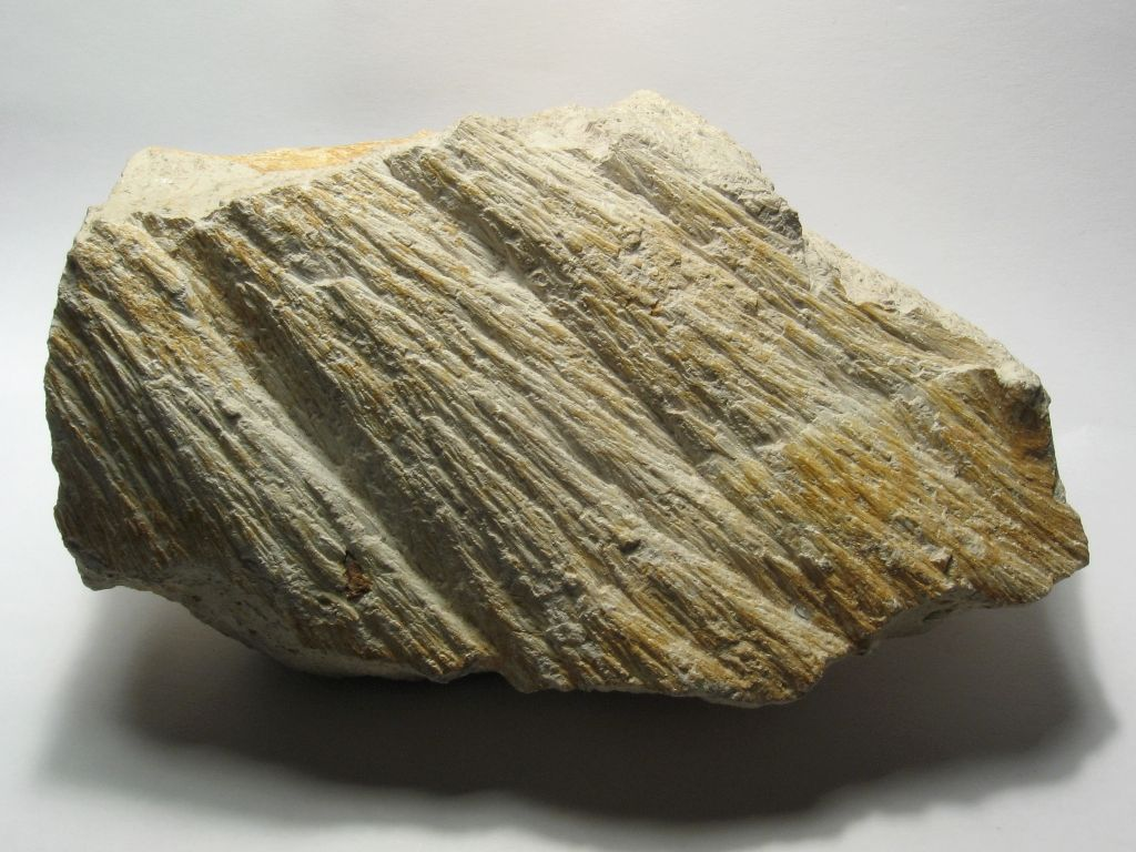 Limestone block with shatter cones from the Steinheim Basin. The specimen is about 13 cm wide.